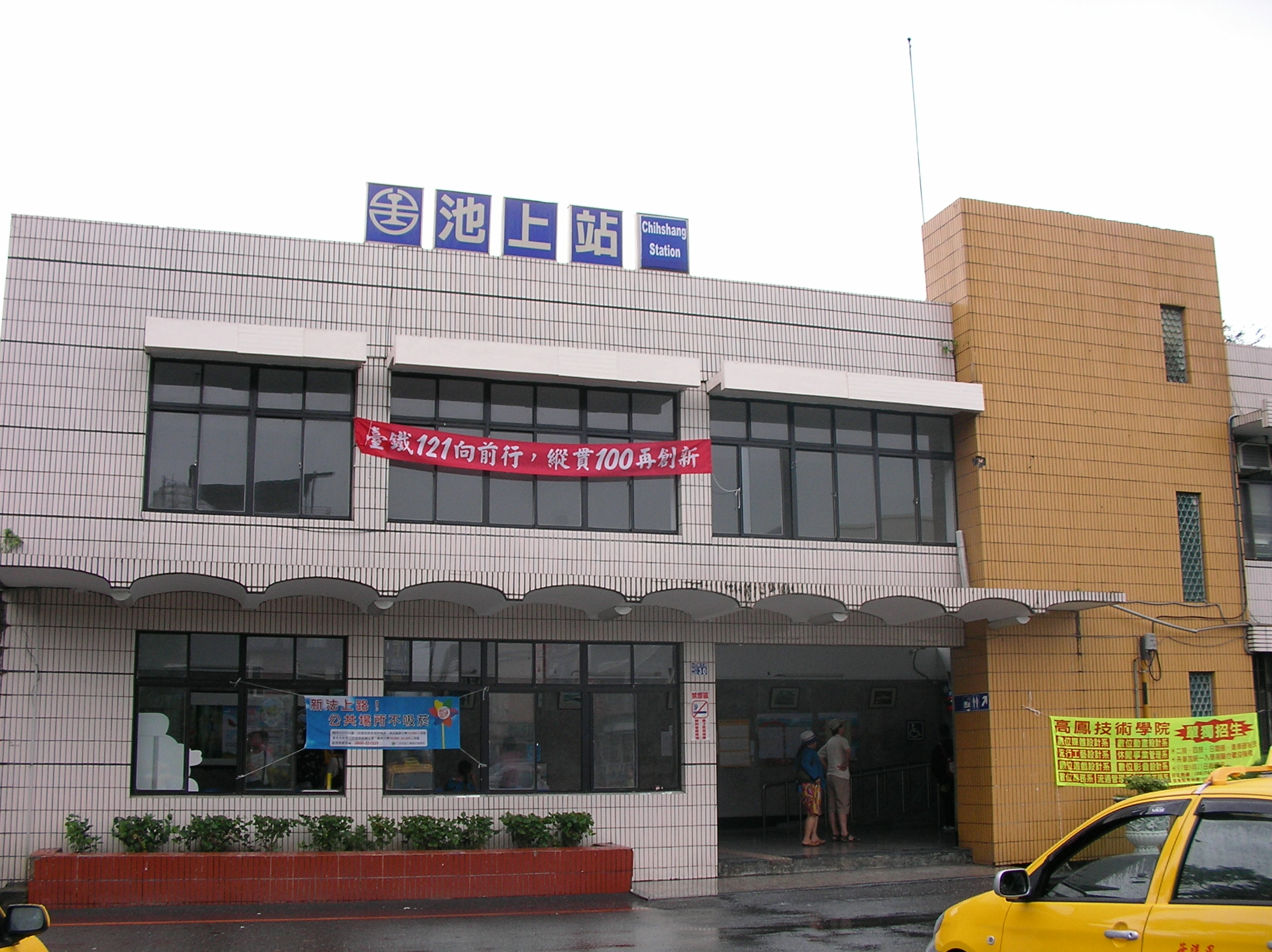 Chihshang Station.